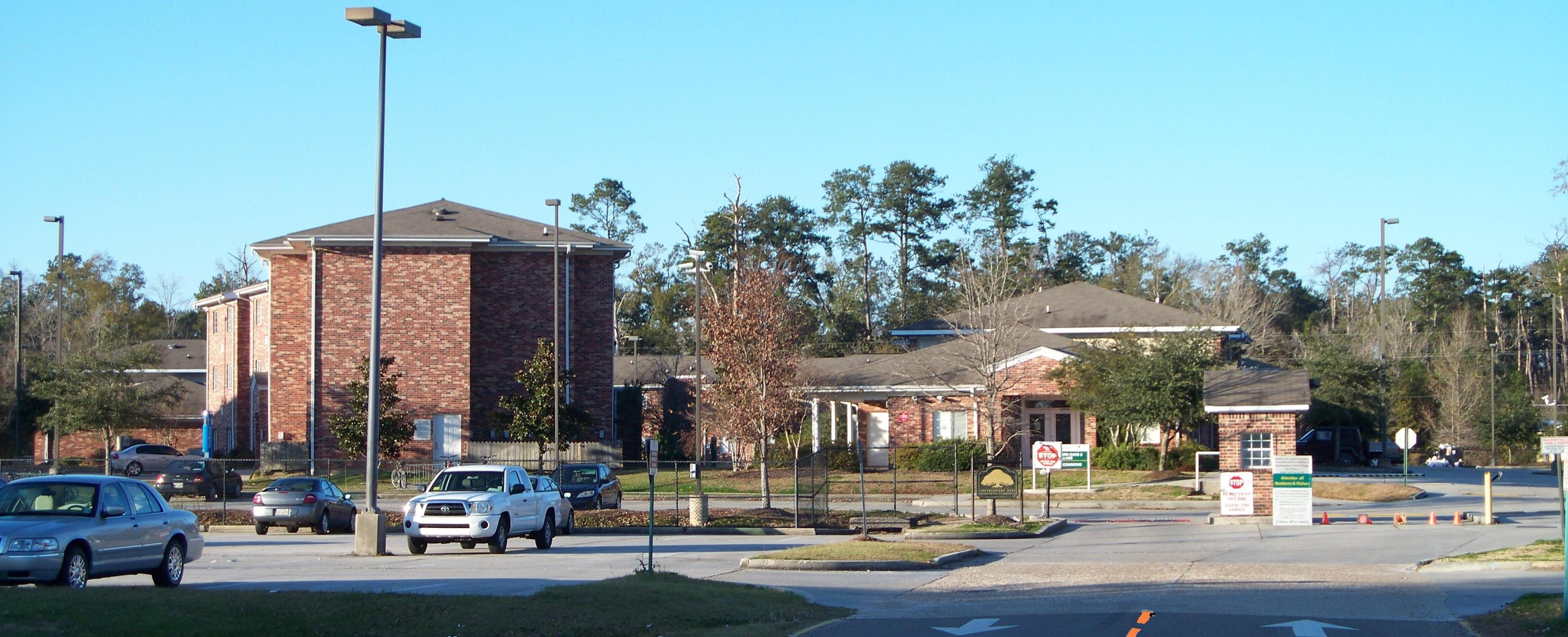 Many Southeastern Louisiana University students reside safely in the gated on-campus community known as Southeastern Oaks. The guardhouse is at the right. Parking is ample. The gate is about 200 yards or 180 meters north of the LA 3234 pedestrian underpass.